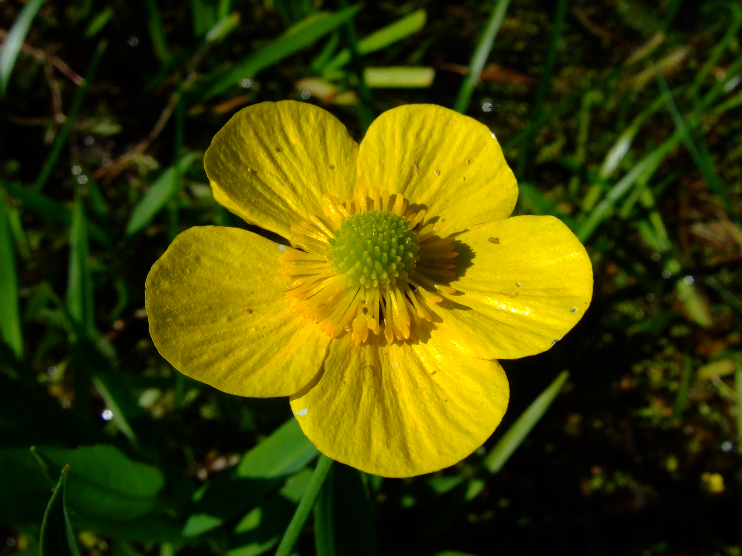 Ranunculus lingua in Kirchwerder, Hamburg.